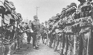 Giretu kuuteitai that receives a review of General Sugawara